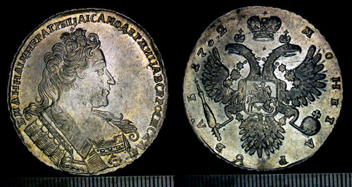 Rubl 1732